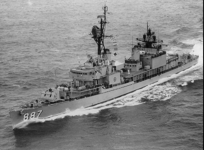 The U.S. Navy destroyer USS Brinkley Bass (DD-887) underway at sea in June 1968.